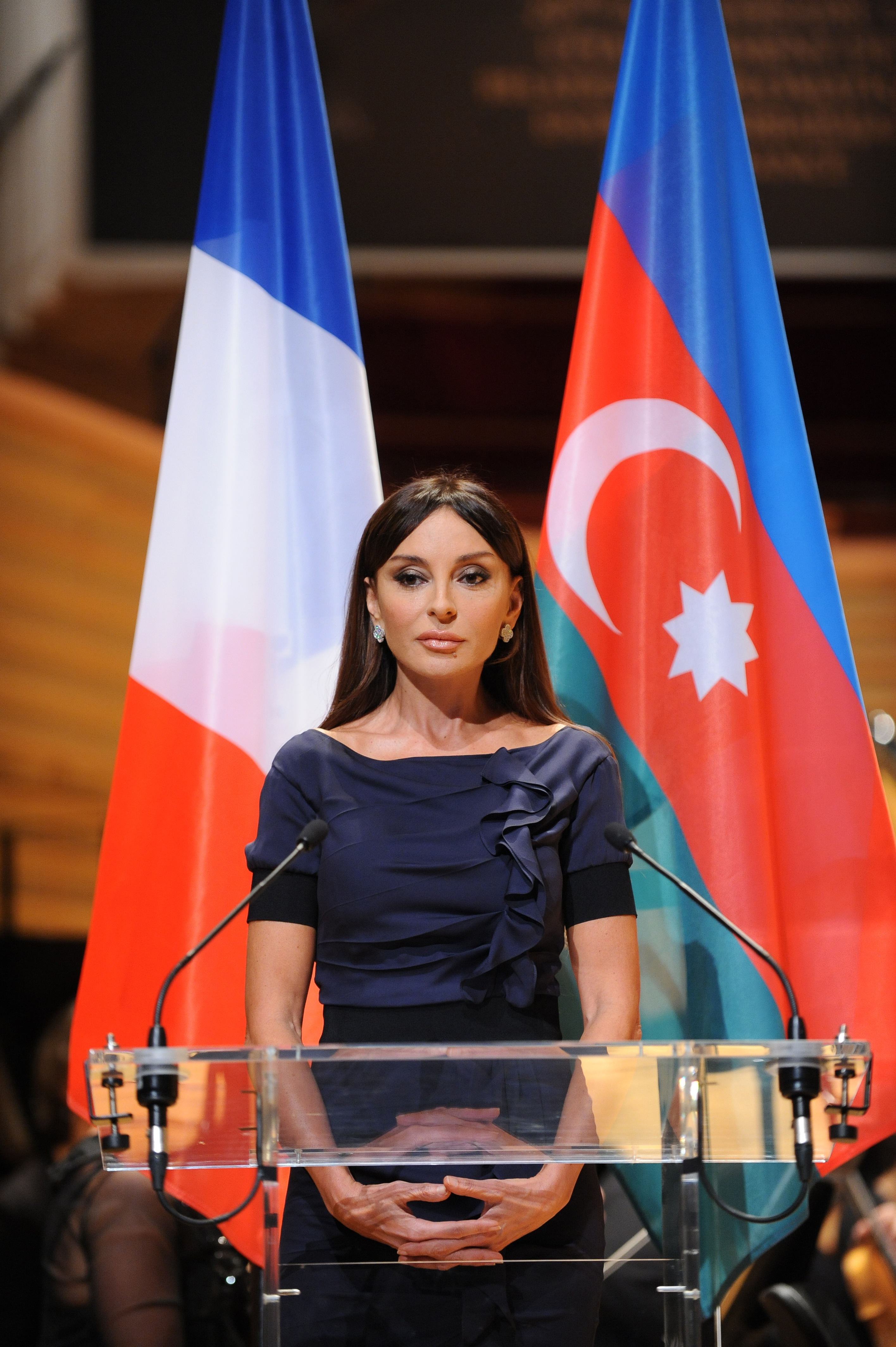 Mehriban Aliyeva - First Lady of Azerbaijan.